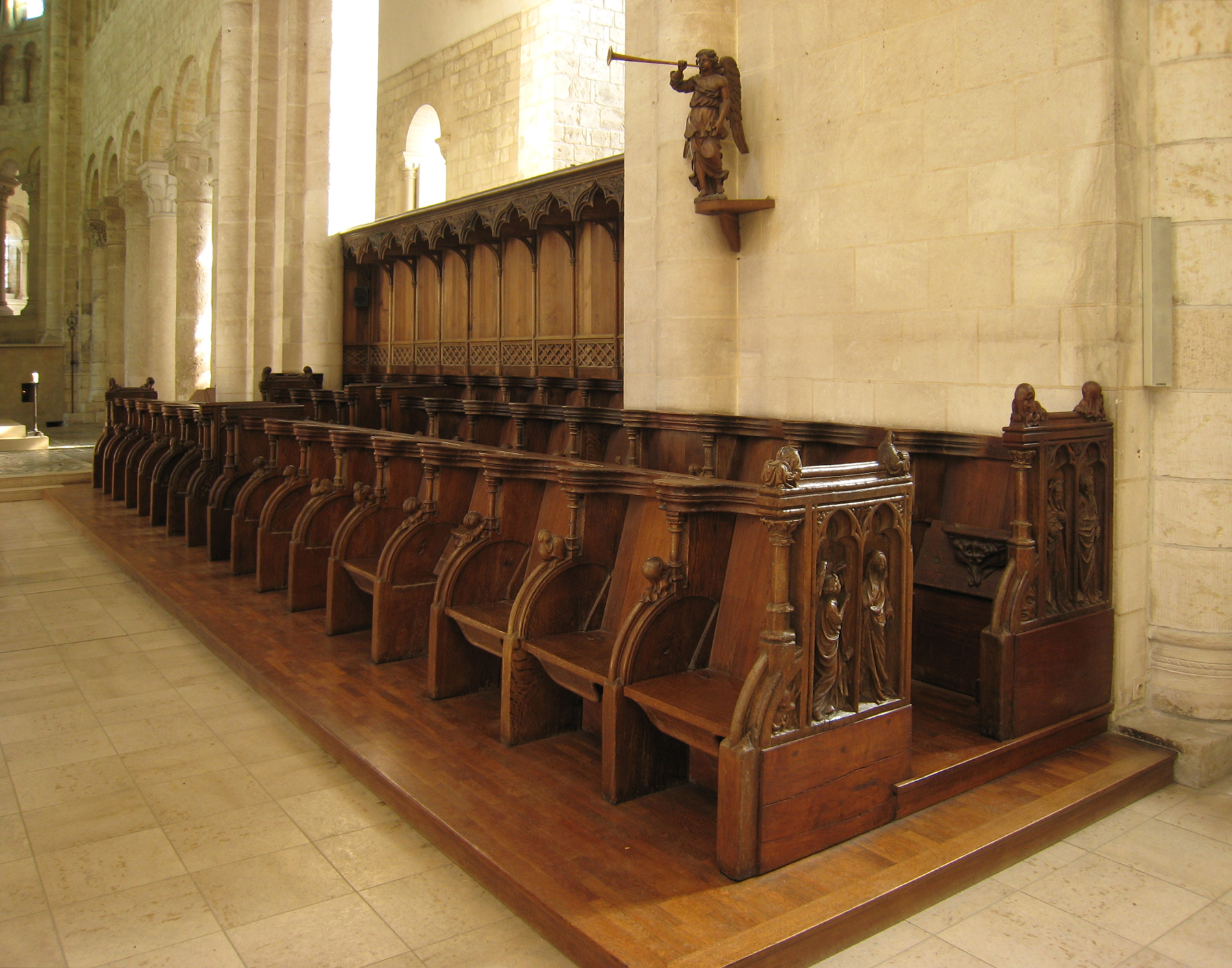 Abbaye de Saint Benoît, located in the town of Benoit-sur-Loire in the département of Loiret/France